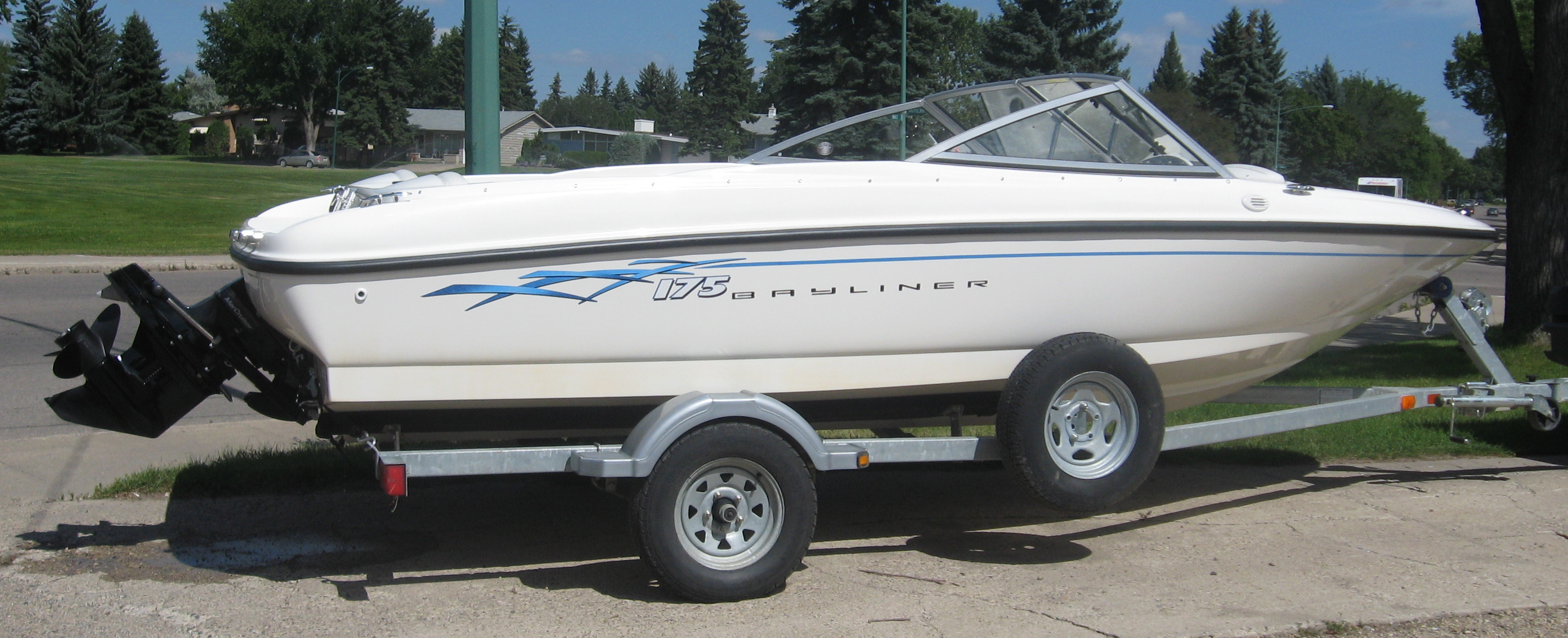 Bayliner 175, starboard side, shot in Saskatoon, SK, summer 2008